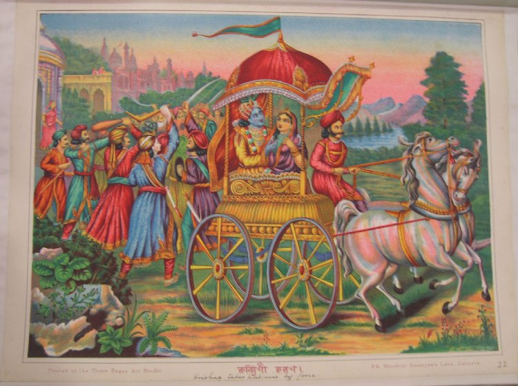 Album of popular prints mounted on cloth pages. Colour lithograph, lettered, inscribed and numbered 22. Krishna and Rukmini ride away in a chariot to be married, while Balarama and others secure their safe passage by fighting those who resist the union. Rukmini's brother Rukmi had promised her hand to another.